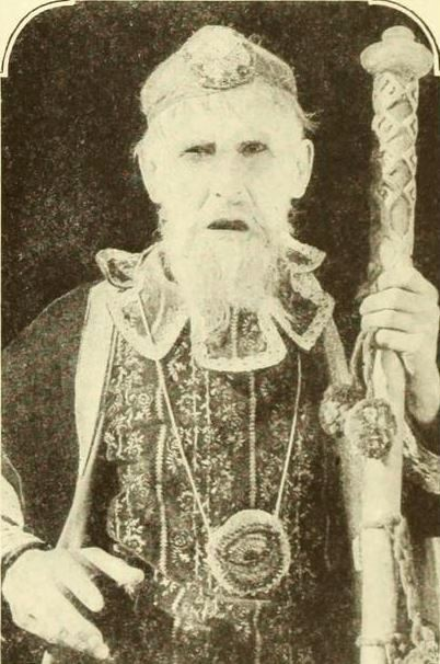 William V. Mong as Merlin in the American film A Connecticut Yankee in King Arthur's Court (1921), from page 31 of the February 1921 Photoplay magazine.